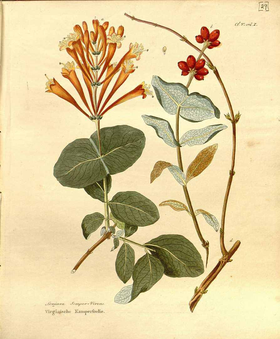 Lonicera sempervirens L. - Krauss, J.C., Afbeeldingen der fraaiste, meest uitheemsche boomen en heesters, t. 29 (1840)